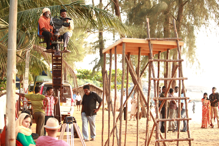 De Nova Location Stills